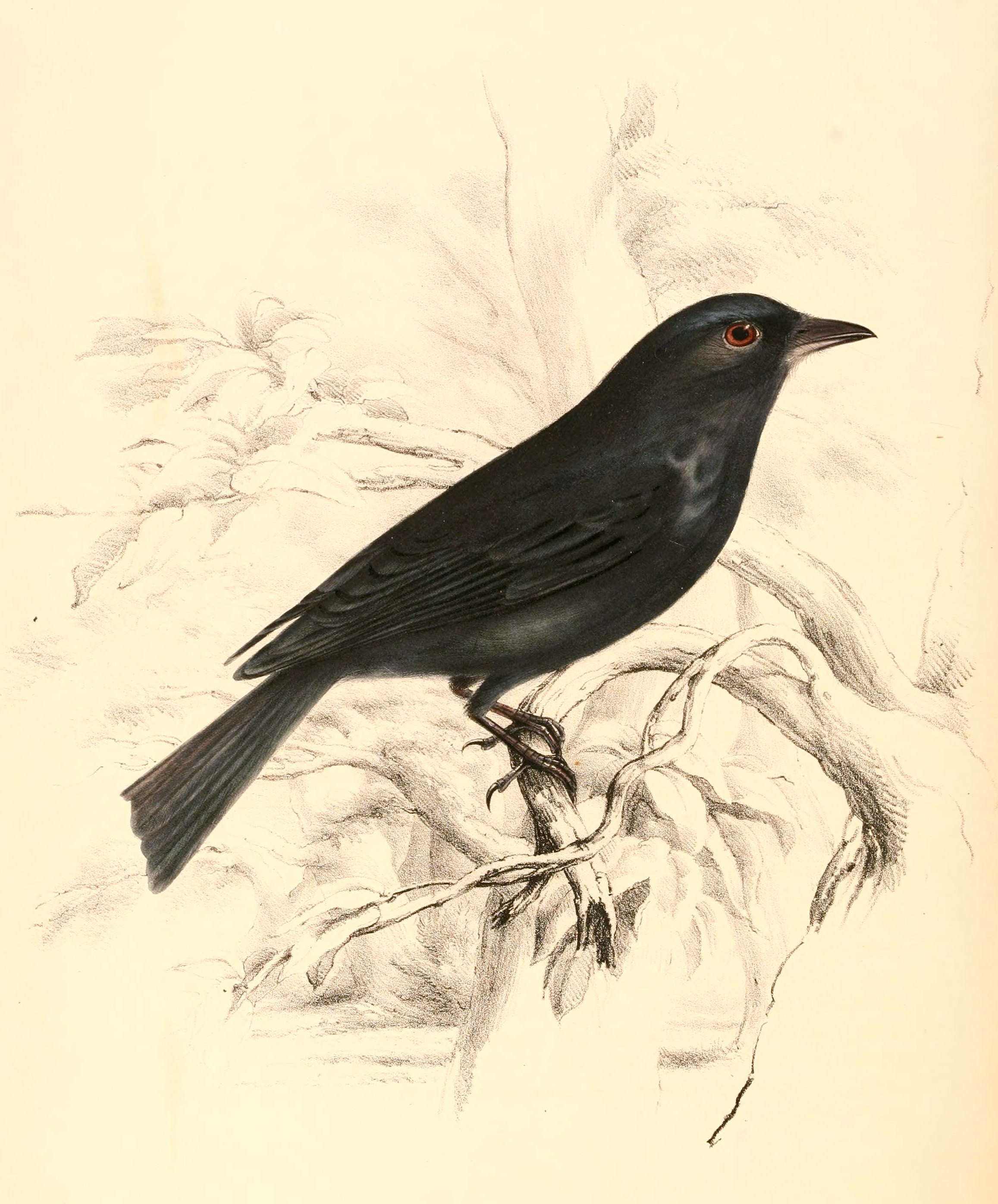 « Dicrurus ludwigii » = Dicrurus ludwigii ludwigii (Subspecies of Square-tailed Drongo) - male